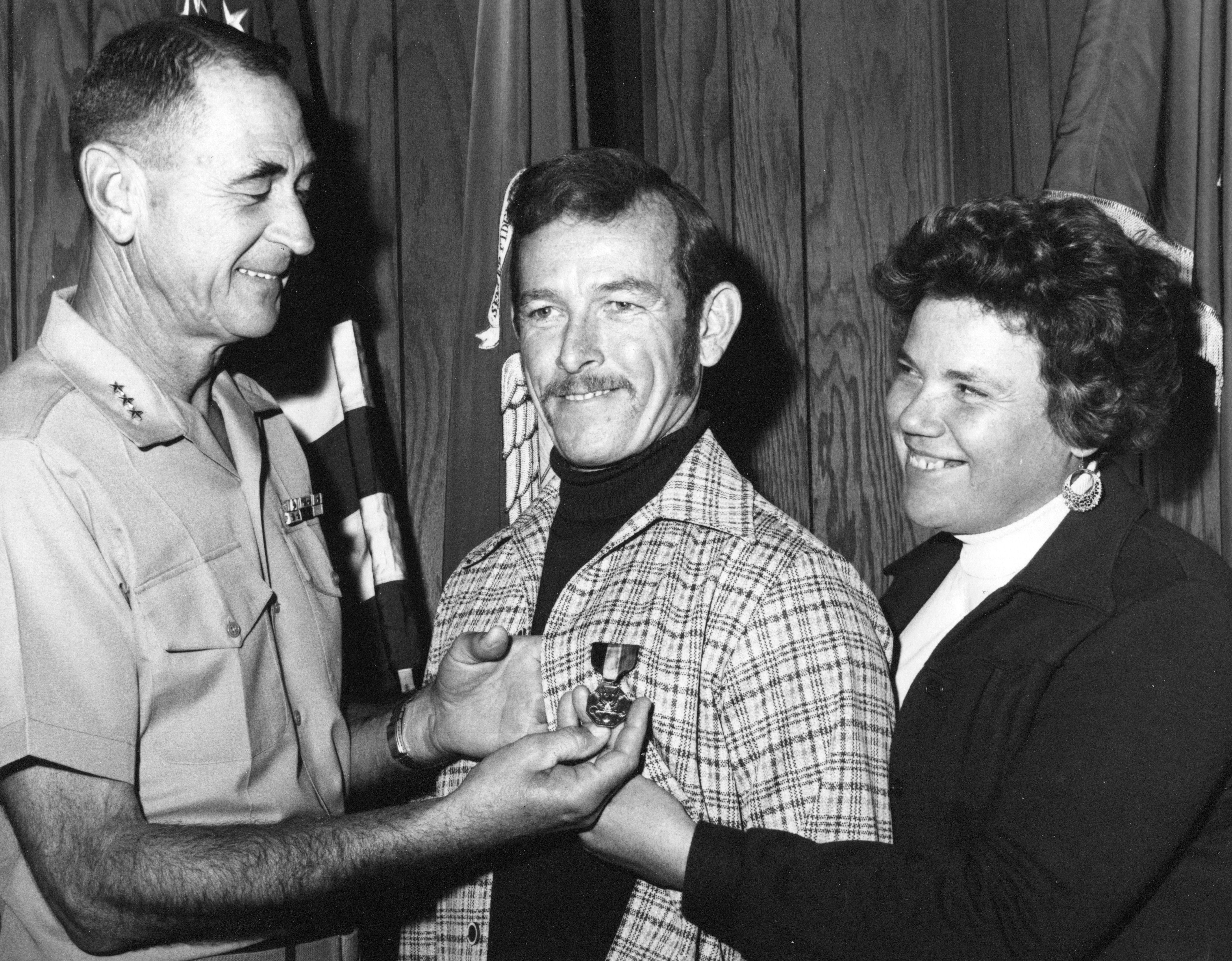 For Heroism, former Gunnery Sergeant Thomas F. Whalen Jr., has the Navy and Marine Corps Medal pinned on by his wife Linda, and Lieutenant general Joseph C. Fegan Jr., Commanding general, Marine Corps Development and Education Command at Quantico. GySgt. Whalen received the medal for disarming a fugitive who held his company officer and staff at bay with a sawed off shotgun.